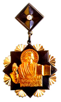 St. Mesrop Mashtots medal of Armenia